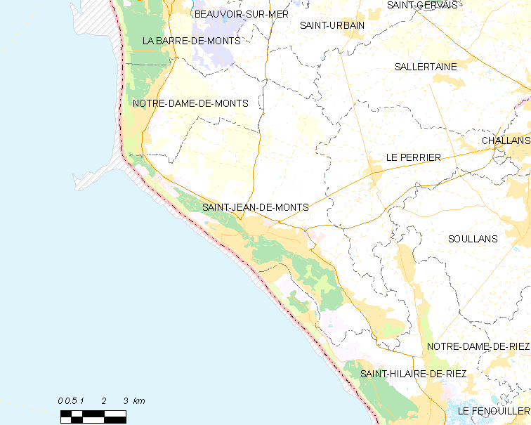 Map of French municipality Saint-Jean-de-Monts